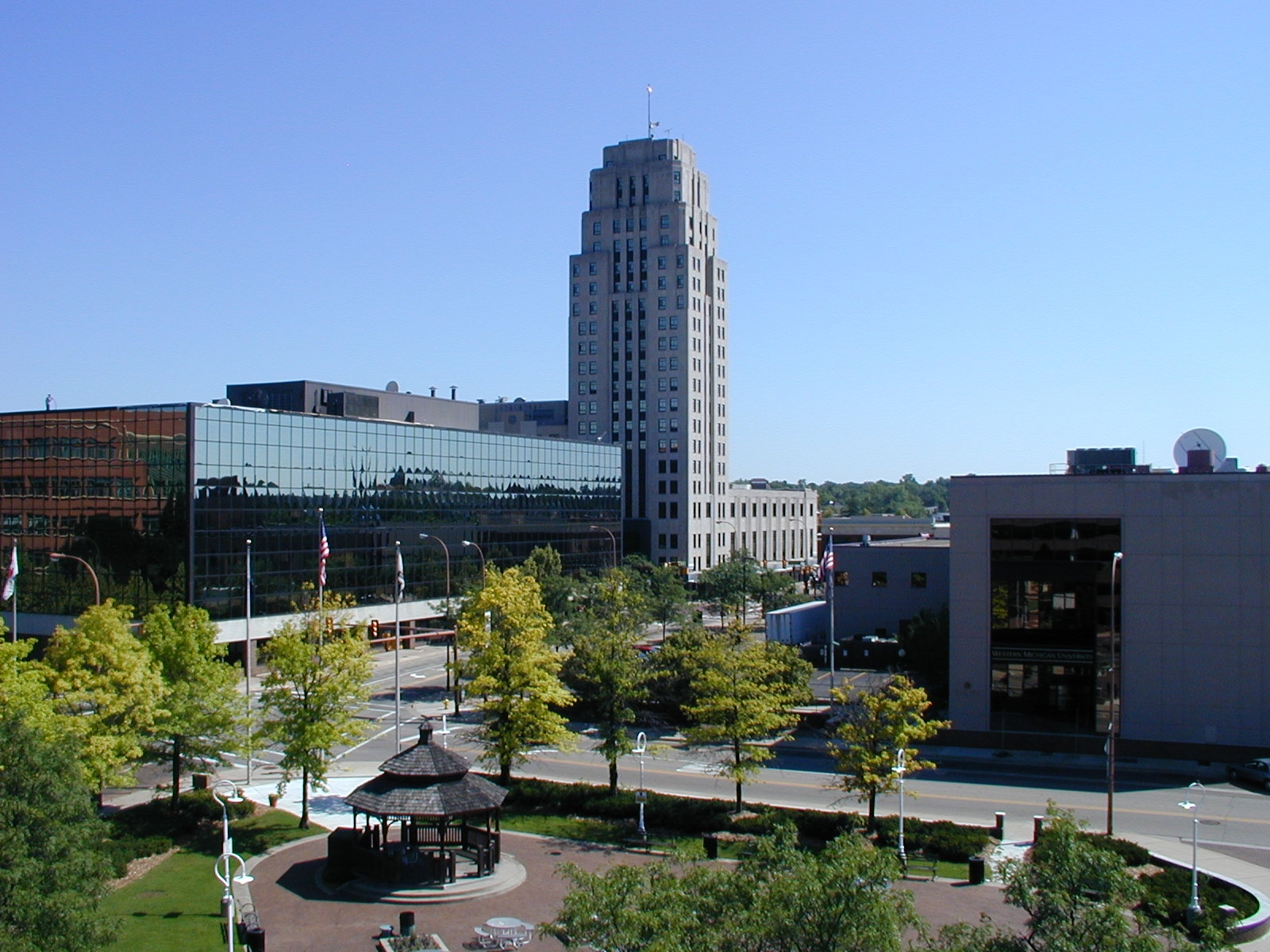 A sunny view of Downtown Battle Creek, Michigan in late 2008.